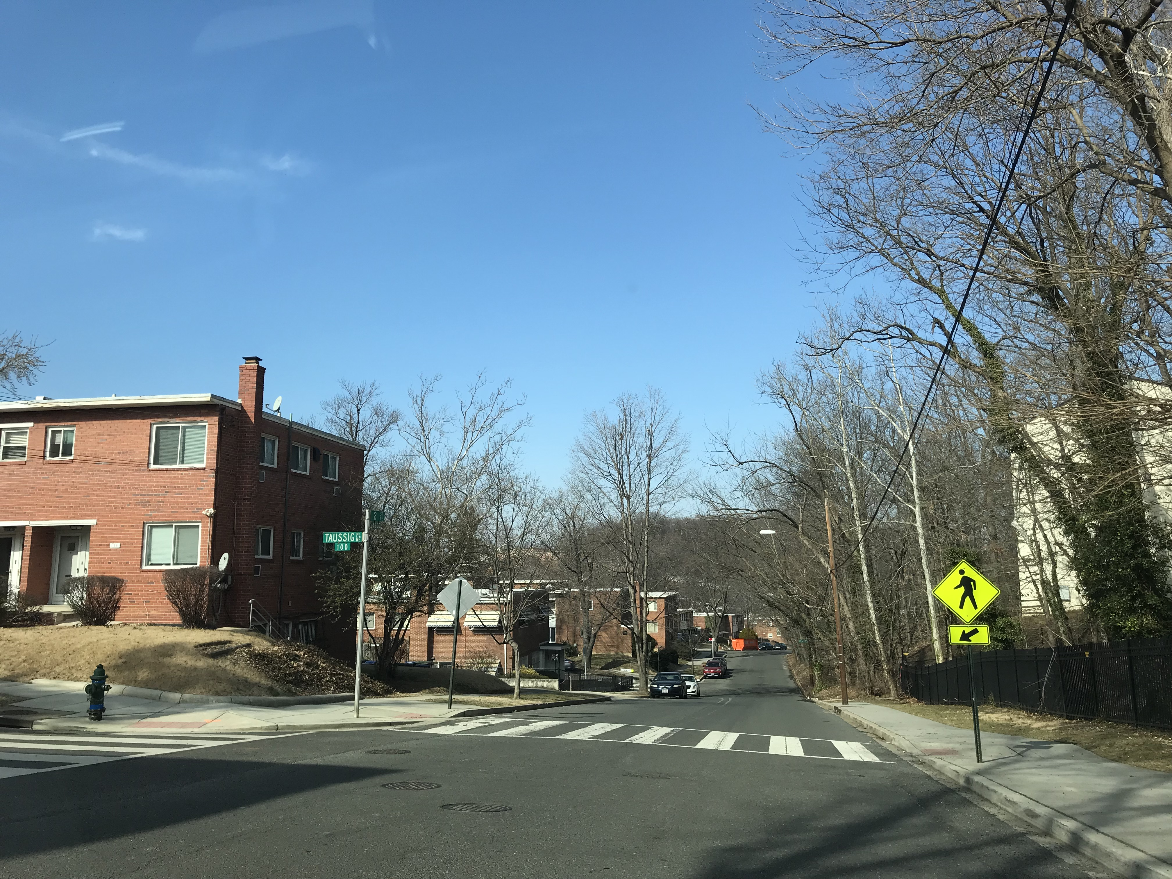 Intersection of Taussig Pl and 2nd St. NE, Pleasant Hill, Washington, D.C.